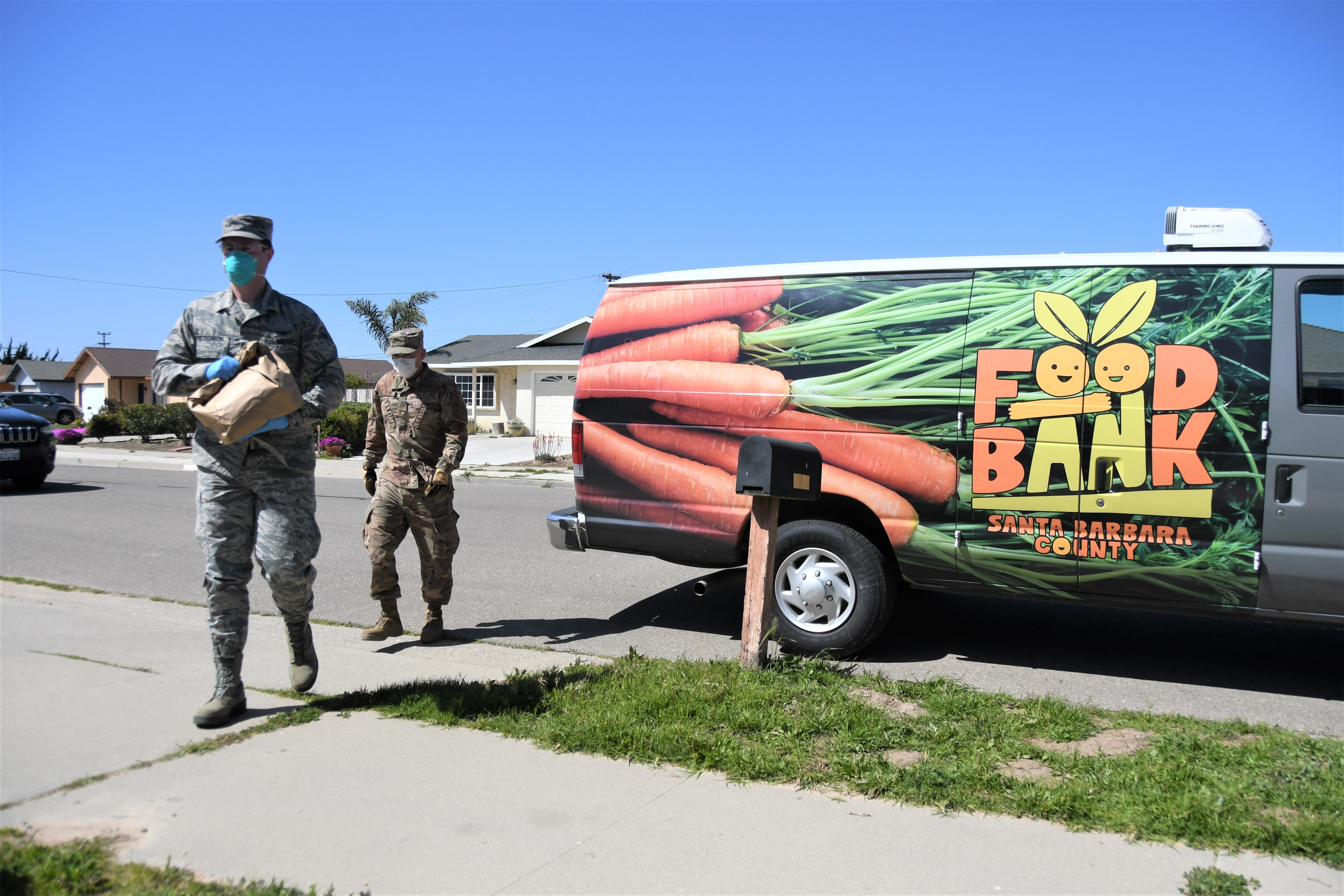 Airman 1st Class Soren Dietrichson, front, and Staff Sgt. Travis Emery, space operators for the California Air National Guard's 216th Space Control Squadron, deliver food to residences in Orcutt, California, on April 2, 2020, as part of the Cal Guard's COVID-19 humanitarian mission. (Photo by Capt. Jason Sweeney)